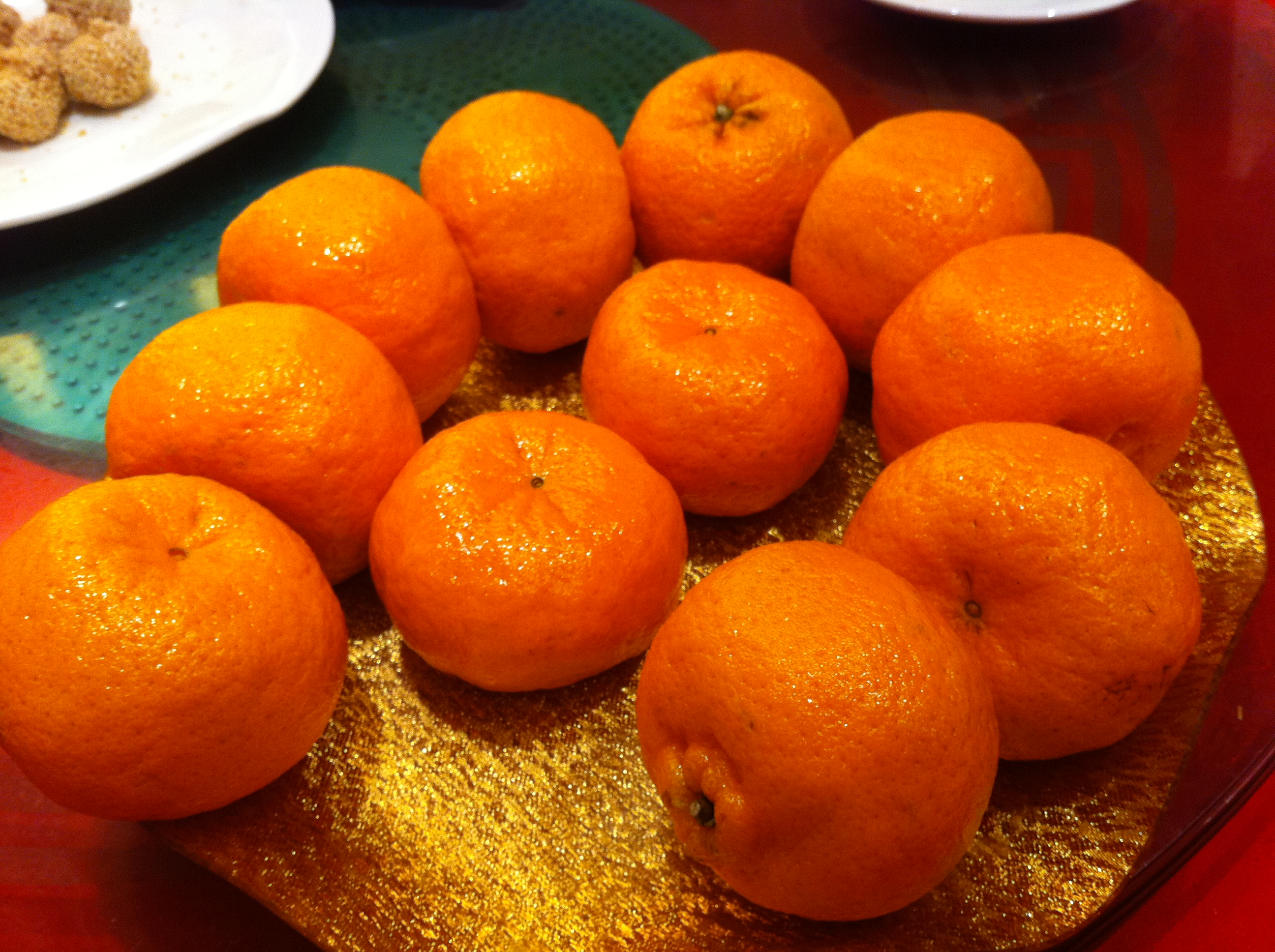 South Horizons Residents Club, South Horizons, Ap Lei Chau, Hong Kong